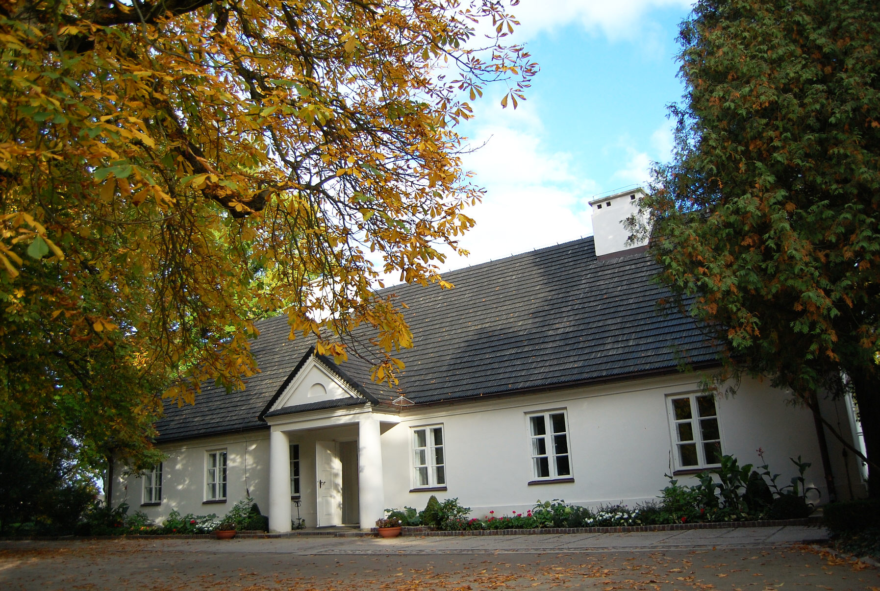 Chopin mansion in Żelazowa Wola